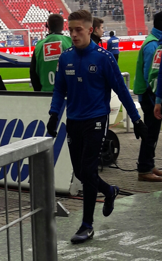 Footballplayer Marvin Mehlem before the match KSC - Eintracht Braunschweig at December, the 17th 2016